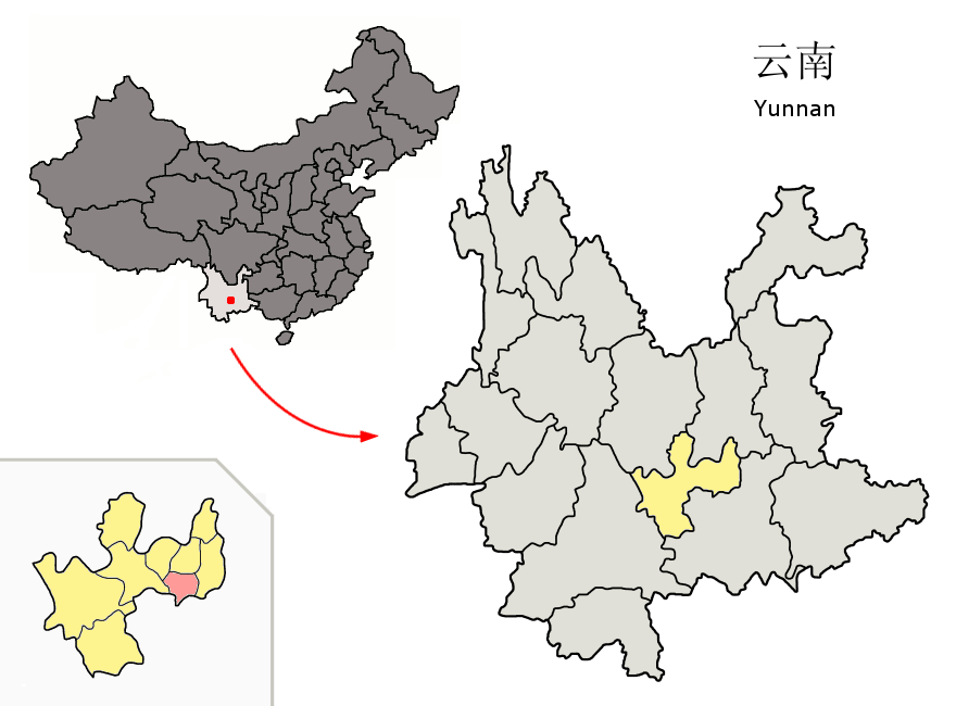 Location of Tonghai County (pink) and Yuxi Prefecture (yellow) within Yunnan province of China fr[1=Location du Xian de Tonghai et de la Préfecture de Yuxi (en jaune) sand la province du Yunnan, en Chine. Map drawn in september 2007 using various sources, mainly : Yunnan province administrative regions GIS data: 1:1M, County level, 1990 Yunnan Counties map from